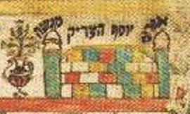 19th-century colour illustration depicting the tomb of Joseph and his sons, Ephraim and Menashe, in Nablus.